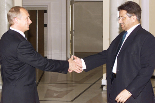 ALMATY. President Vladimir Putin and Pakistan\'s President Pervez Musharraf.